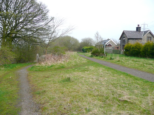 Site of Hazlehead railway station, Dunford The Trans-Pennine Trail carries on past the buildings, and the path on the left goes down to the A616.